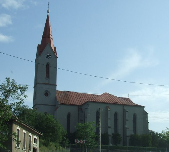 Church in Ardud city, Satu Mare County, Romania